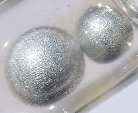 Potassium pearls under paraffin oil. Original size of the largest pearl: 0.5 cm.